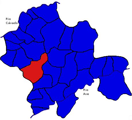 Map of Lanhoso in Povoa de Lanhoso, Portugal